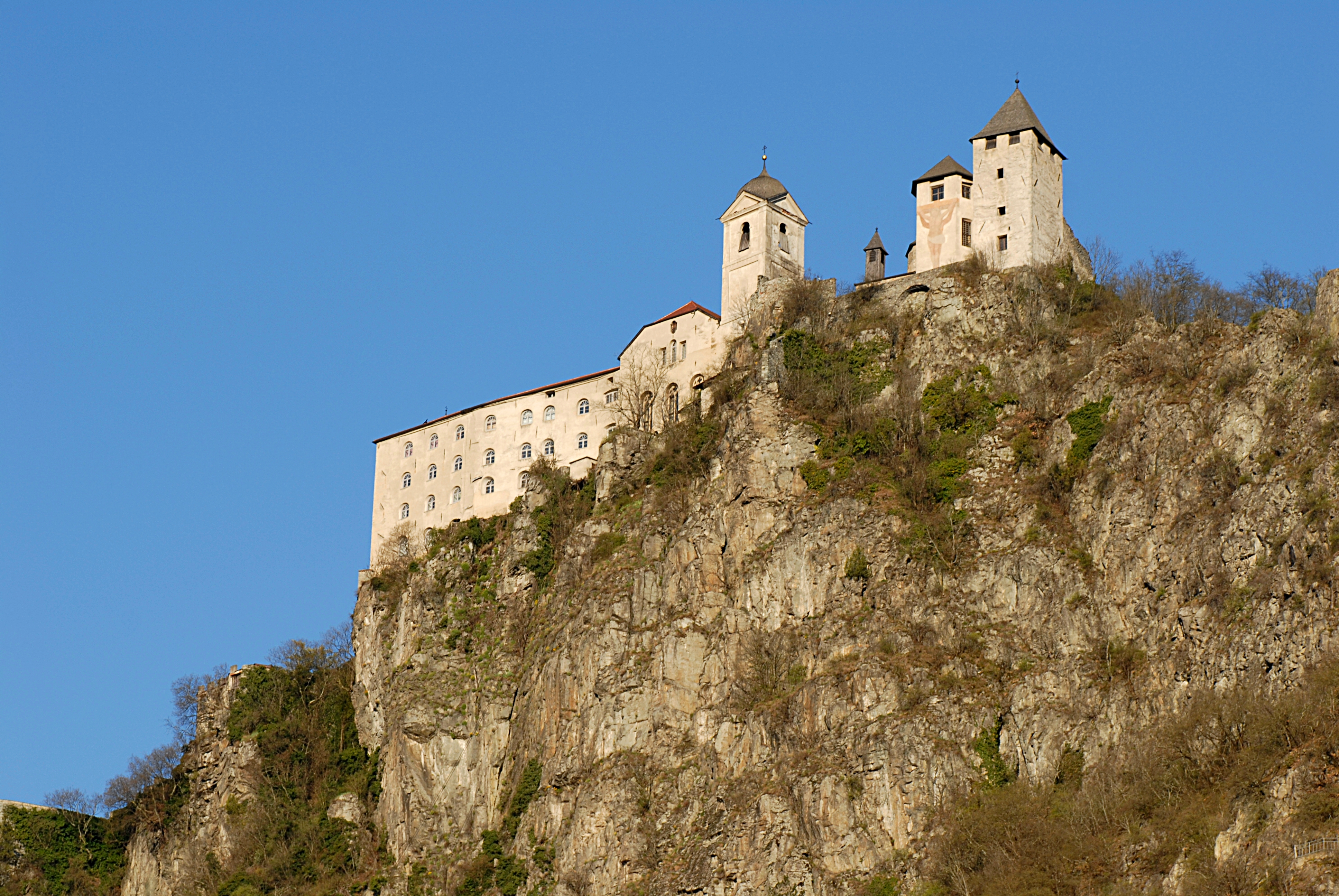 The monastery of Säben (Sabiona) near Klausen